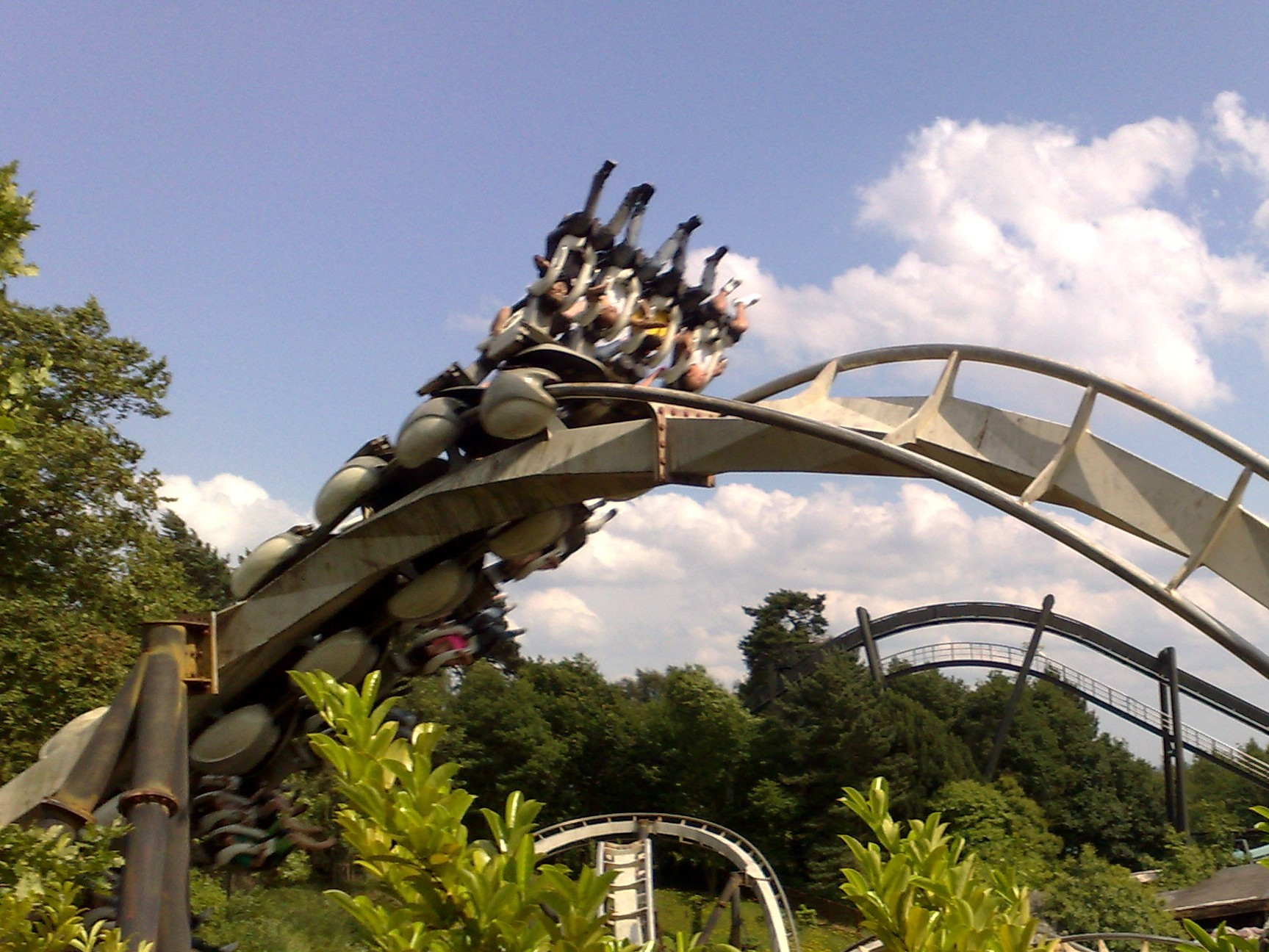 Rollercoaster at Alton Towers